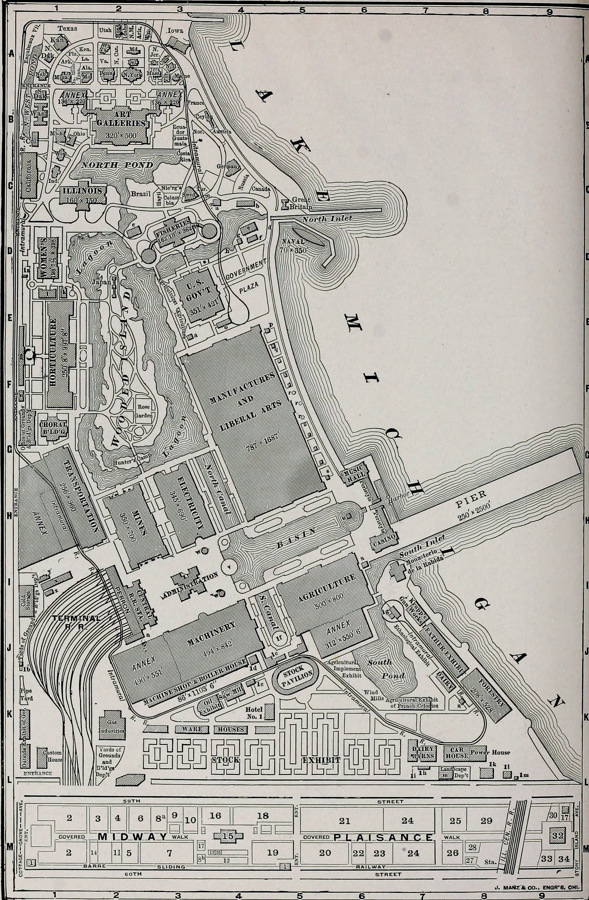 Title: Dedicatory and opening ceremonies of the World's Columbian exposition : historical and descriptive Year: 1893 (1890s) Authors: World's Columbian Exposition (1893 : Chicago, Ill.) Subjects: World's Columbian Exposition (1893 : Chicago, Ill.) Publisher: Chicago, Ill. : Stone, Kastler & Painter Text Appearing Before Image: Jl. Text Appearing After Image: INDEX ILUSTRATIONS. Ackerman, W. K £ Adams, MUward S Administration bldg Administration bldg., east Agricultural bldg 13, Agricultural bldg., electric fountain Agricultural bldg., north Agricultural bldg., interior. S Allen, Edwin I Aguilera, Charles Archasology and Ethnology bldg 1 Arkansasbldg J Art Gallery Avenue of State bldgs . Barbour, George H i Birds-eye view, east half... ;Birds-eye view, west half... iBirds-eye view, from top of Manufactures bldg ! Bonney, Chas. C Brazil bldg 1 Bryan, Thomas B ; Burleigh, Mrs. Edwin I Burnham, D. H , Director of ■Works ; Boushareen, Group of : Cairo, Street in i California State bldg Canadian bldg j Caravels of Columbus : Carlisle, W. K ; Ceylon bldg : Chicago Hussars ; Chiefs of Departments J City decorations I Cleveland, Grover I Cliff Dwellers, The Coates, George F : Cold Storage bldg ; Coleman, Mrs. Laura : Colonnades of the Peristyle. Colorado bldg Columbia bldg Columbus, Christopher Columbus, Christopher, Son of Duke ofVeragua Colum